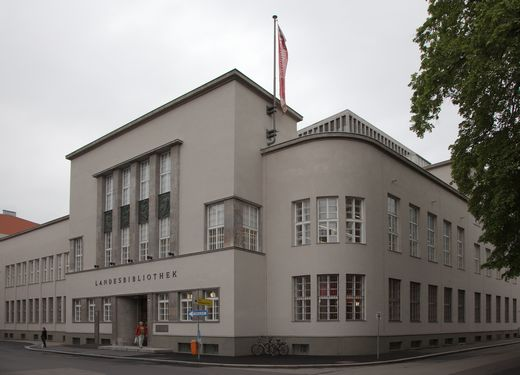 Upper Austrian Regional Library